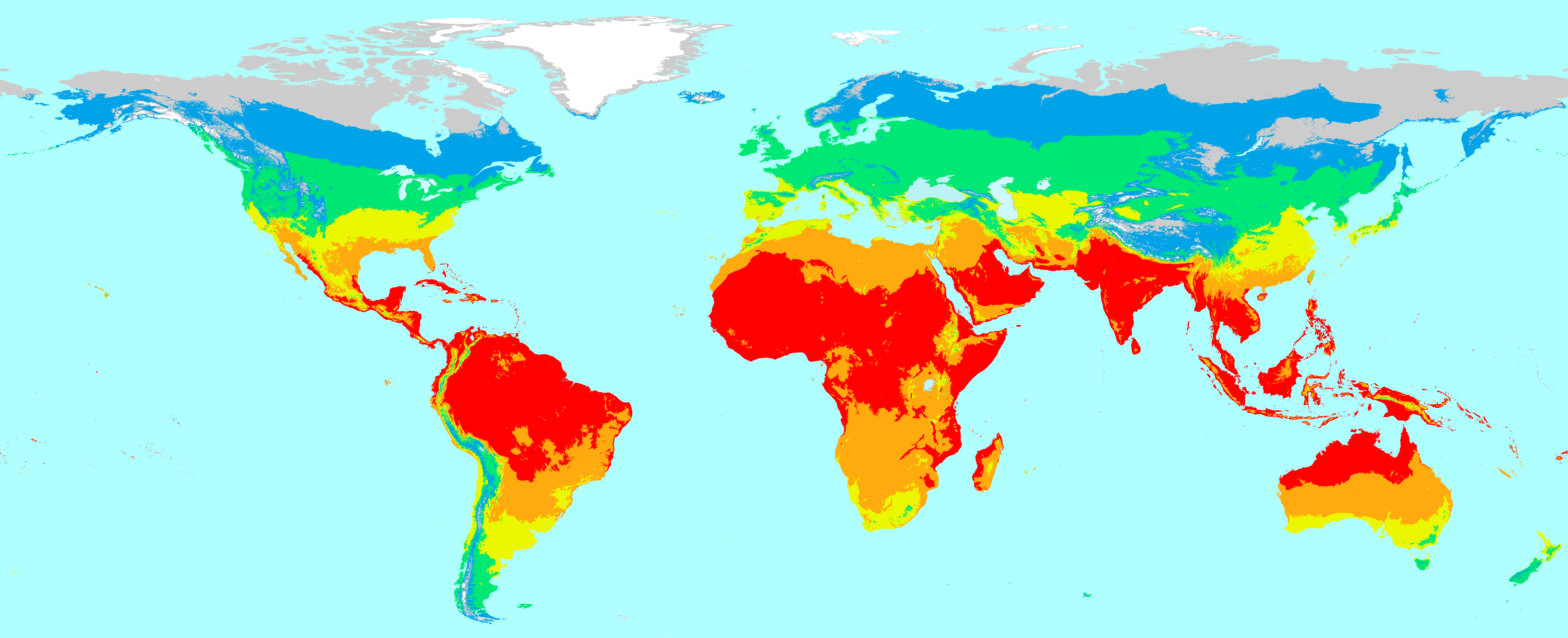 Global Thermal Zones, according to the Holdridge System biotemperatures